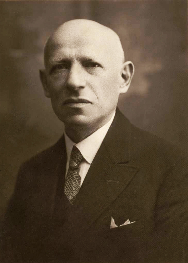 Picture of Abraham Salz